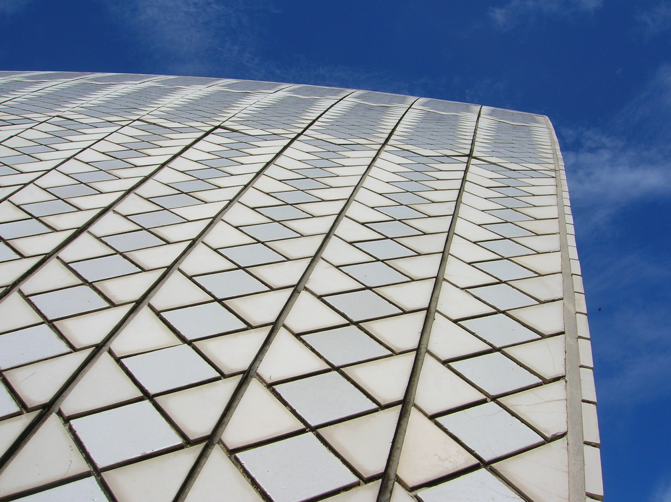 Detail of a exterior wall. Sydney Opera House, Australia.